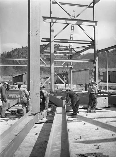 Swedish workers building a machine shop circa 1950s.